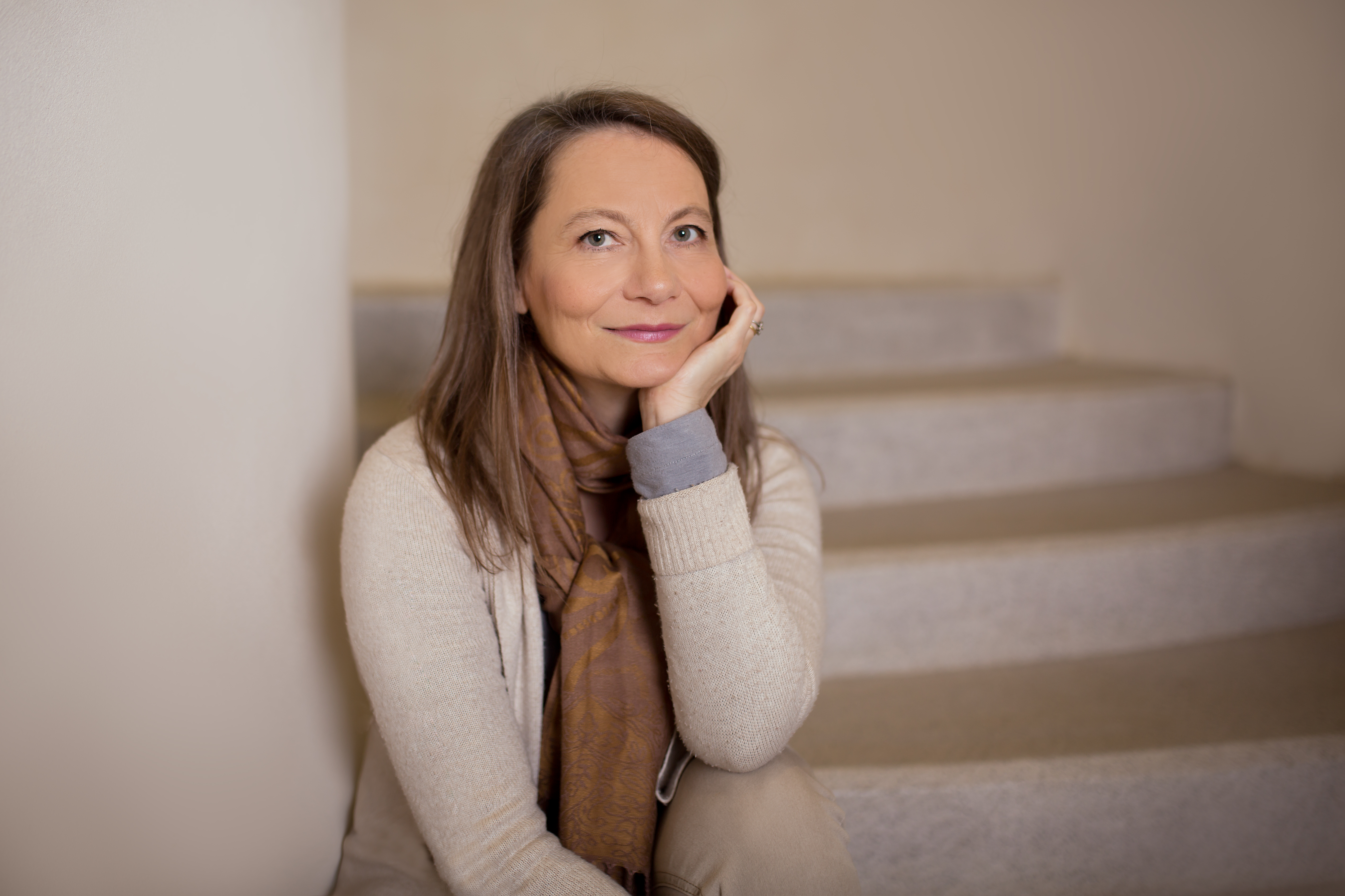 Marie Kinsky